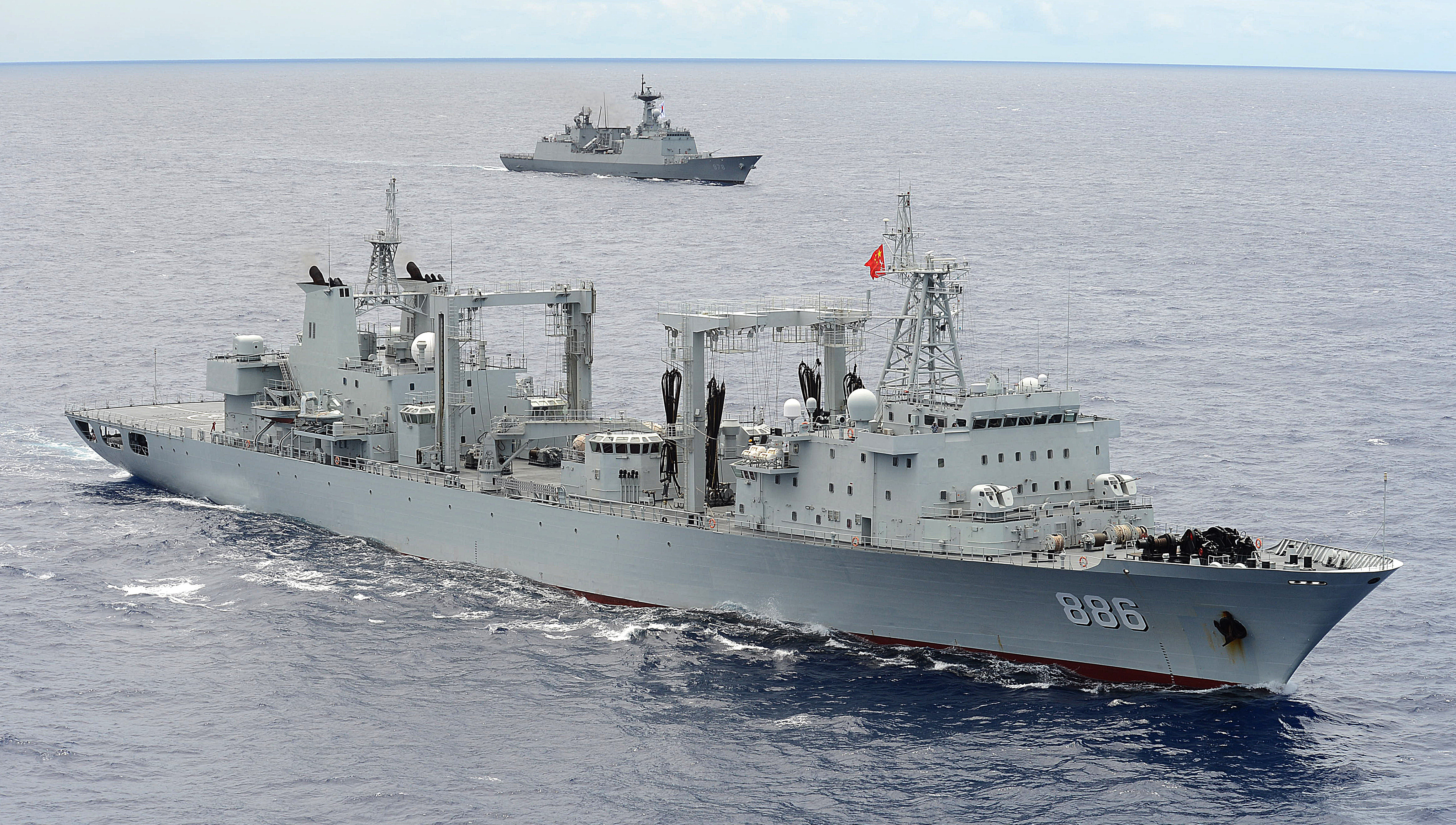 People's Liberation Army (Navy) ship PLA(N) Qiandaohu (AO 886) (foreground) and Republic of Korea Navy ship ROKS Wang Geon (DDH 978) steam in close formation as two of 42 ships and submarines representing 15 international partner nations during Rim of the Pacific (RIMPAC) Exercise 2014.